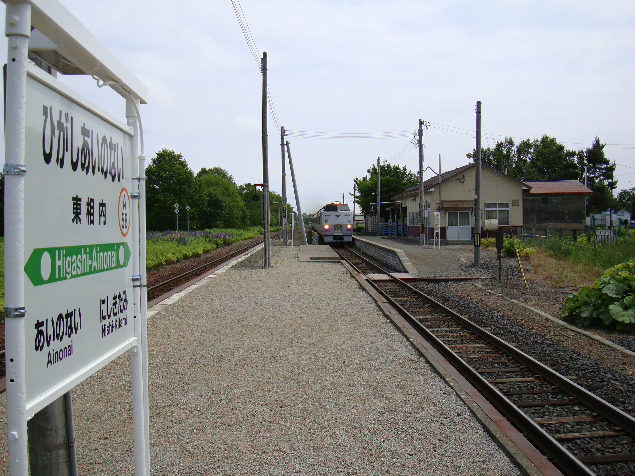 Higashi-Ainonai Station